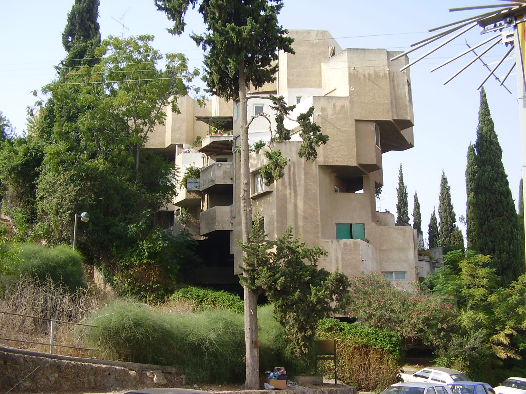 dubiner house in ramat gan